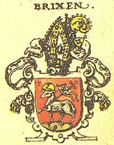 Coat of arms of the prince-bishops of Brixen, from Siebmacher's Wappenbuch